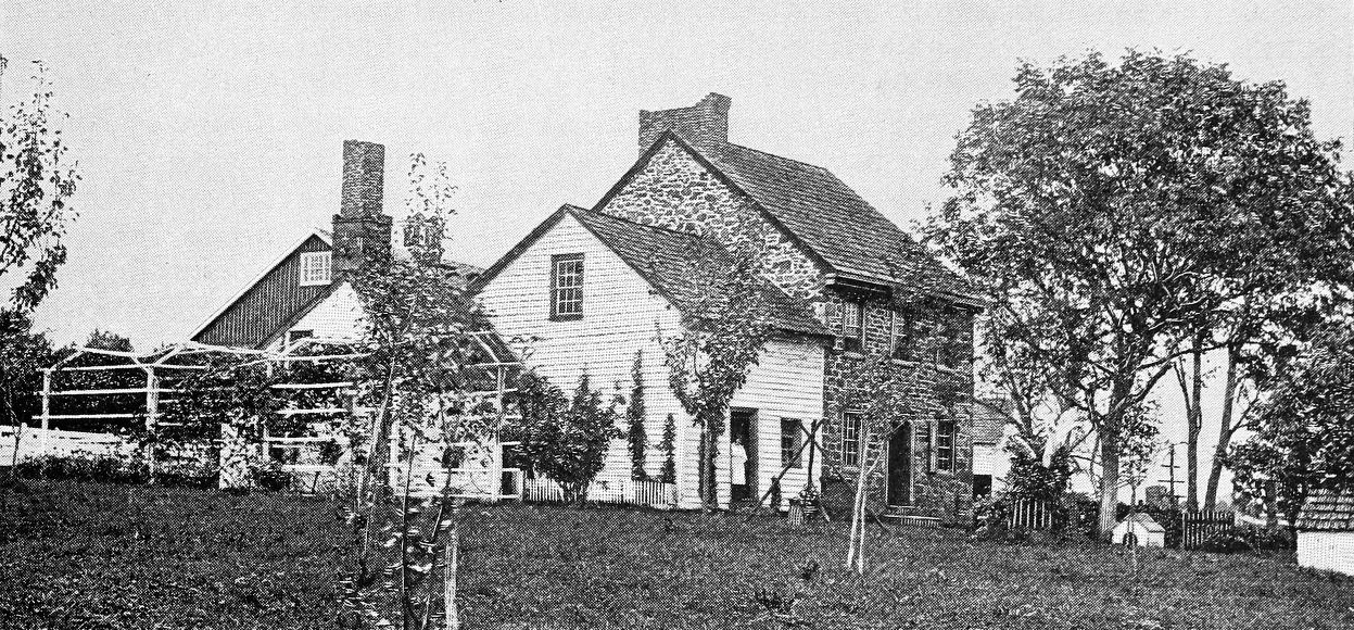 The early home of Hannah Grant, mother of Ulysses S. Grant, in Montgomery County, Pennsylvania, as it appeared in 1896.